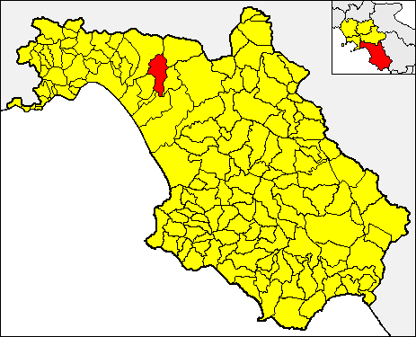 Locator map of the municipality of Montecorvino Rovella (red) within the Province of Salerno